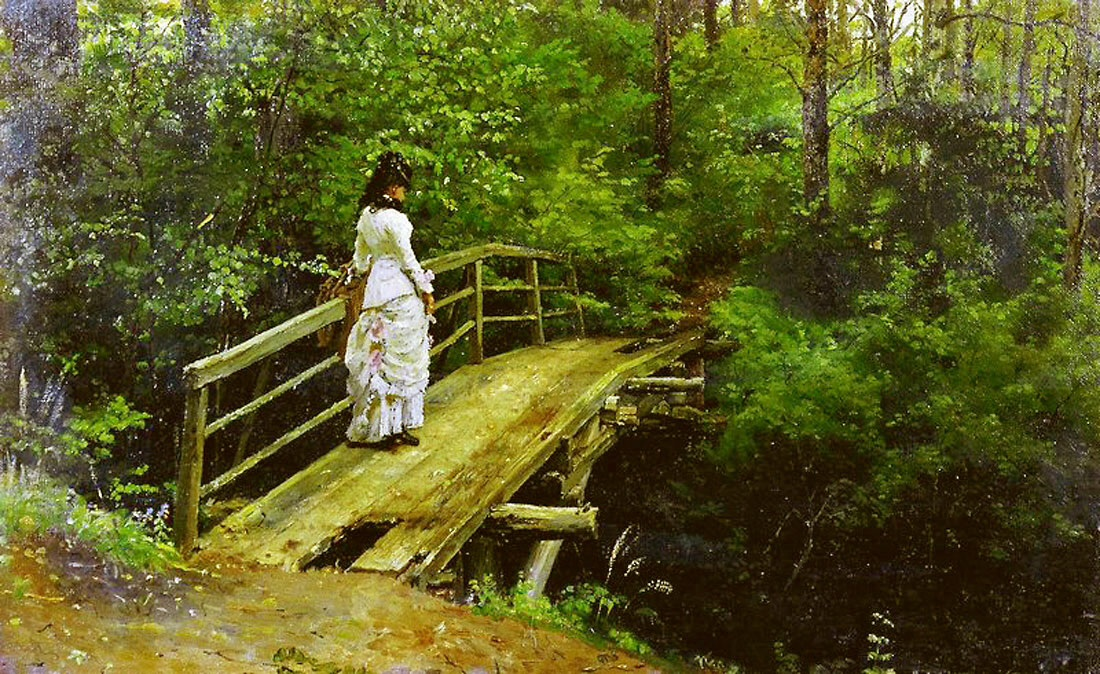 Portrait of Vera Tsjevtsova in Abramtsevo